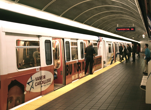 Granville Station of the Vancouver SkyTrain.